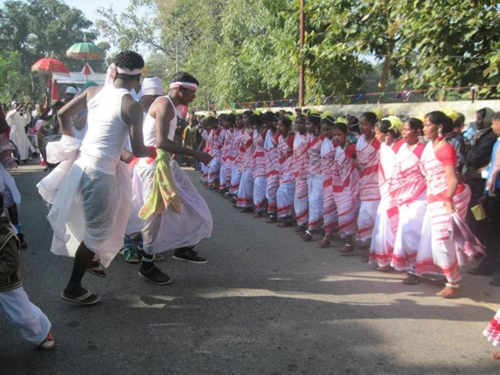 Picture of aadiwasi dance.